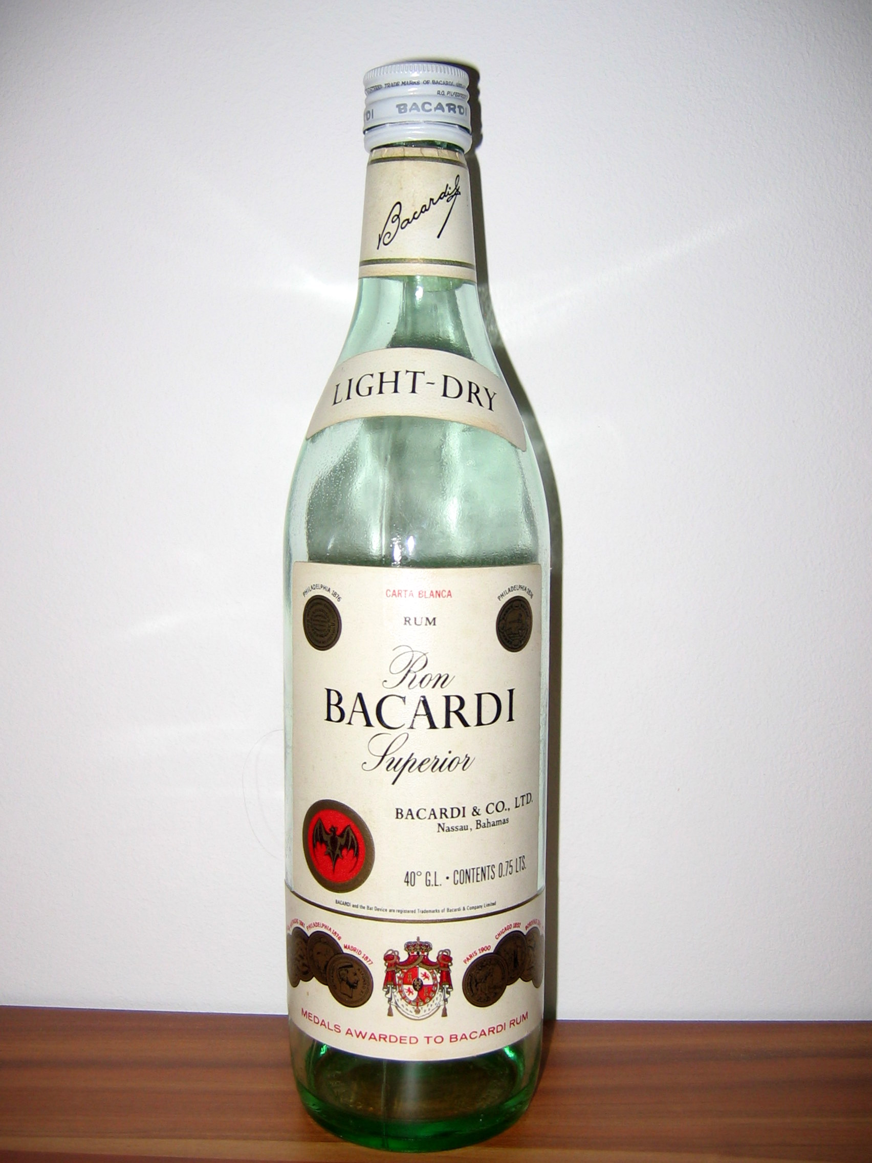 An old bottle of Bacardi rum (date unknown), probably 1970s